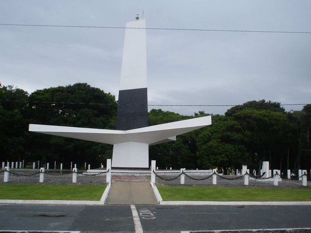 The easternmost point in America, Faro do Cabo Branco in Joao Pessoa, Brazil.